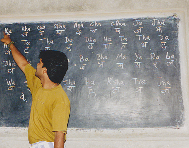 Teacher explains in Nepal